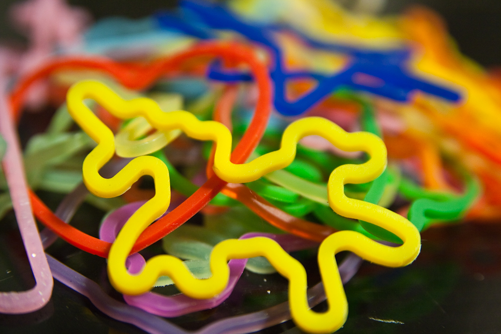 Unicorn Silly Bandz Macro July 09, 2010